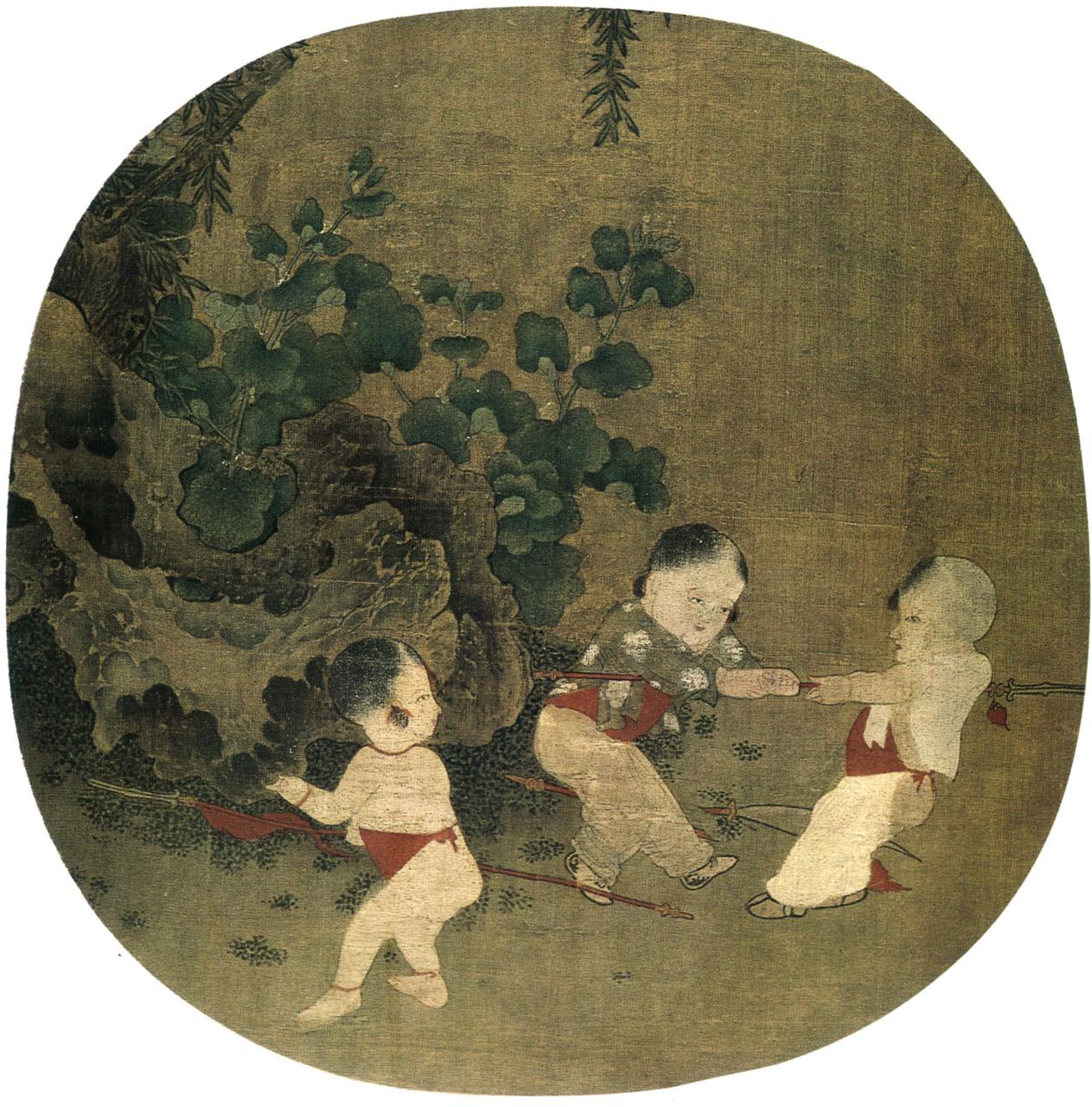 Children playing in authum garden